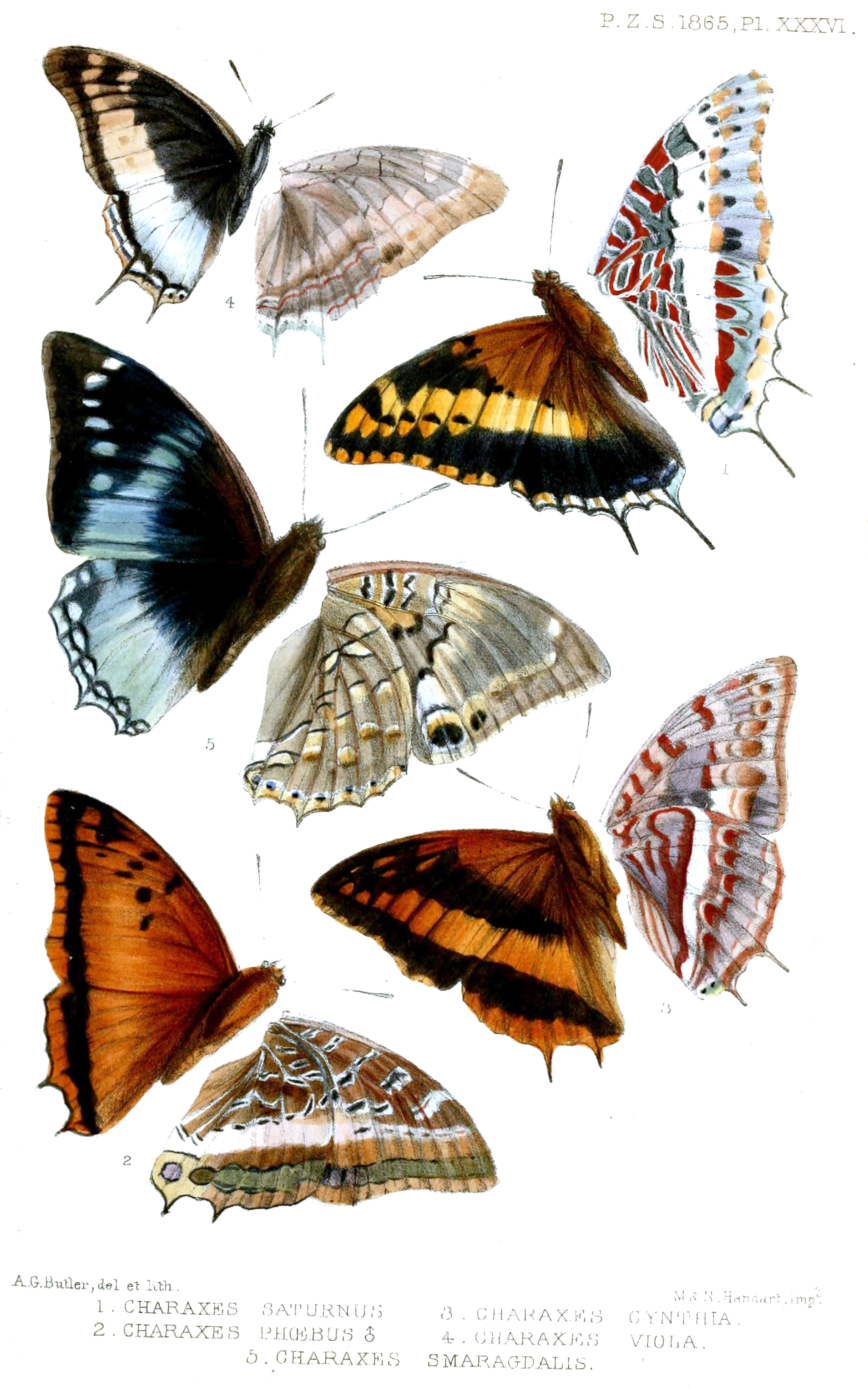 Rajah butterflies1: Koppie charaxes (upperwing and underwing)2: Charaxes phœbus (upperwing and underwing of male)3: Western red charaxes (upperwing and underwing)4: Viola charaxes (upperwing and underwing of female)5: Western blue charaxes (upperwing and underwing of male)